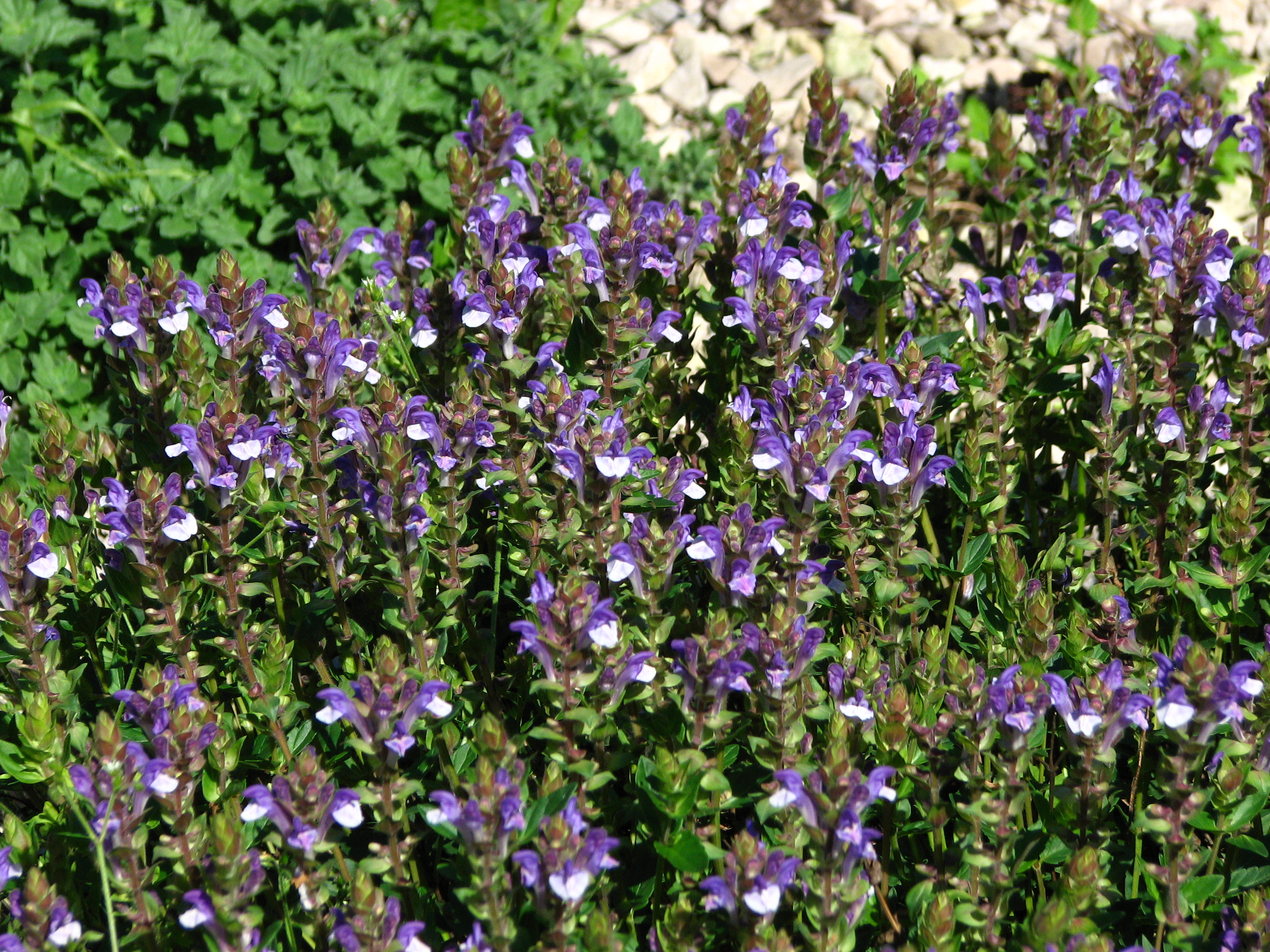 Scutellaria baicalensis. From the collection of the Main Botanical Garden of Academy of Sciences in Moscow (perennials plot).